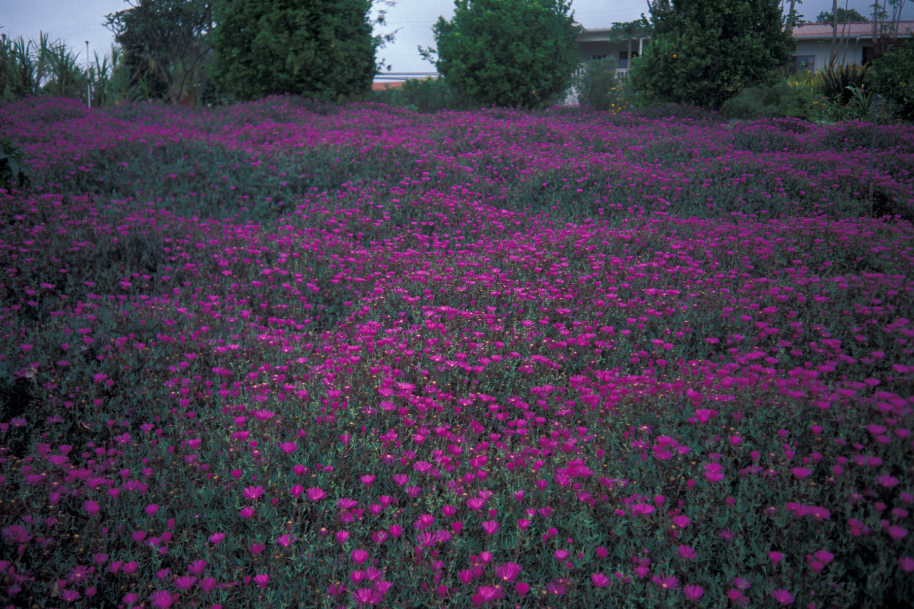 Lampranthus roseus (habit). Location: Maui, Enchanting Floral Gardens of Kula